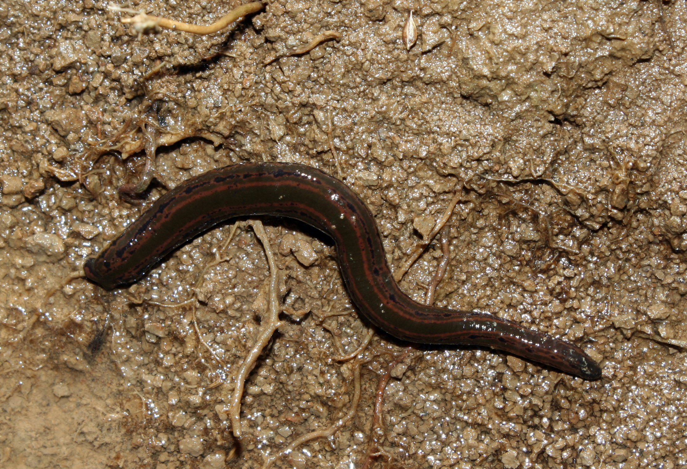 Hirudo medicinalis. European medicinal leech. Family: Hirudinidae. Location: Southern Germany / Schmiechen